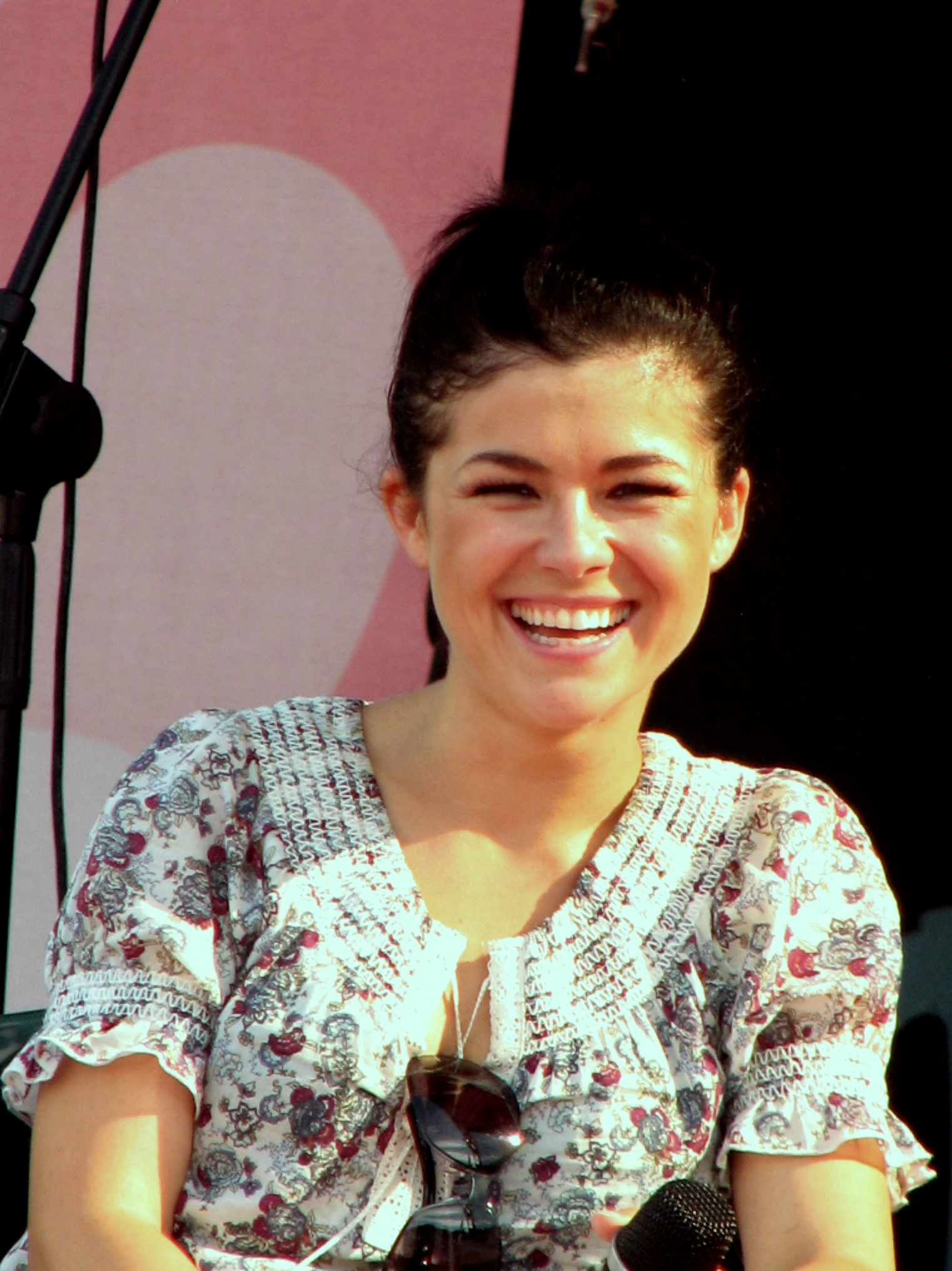 Katarzyna Cichopek during IV Meeting Of Fans of the TV Series "M jak miłość" in Gdynia 2010. "M jak Miłość" in exact translations: "L as Love".